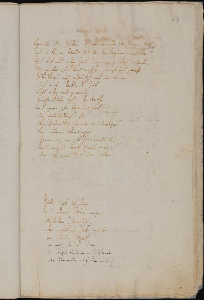 Page 63 of "Homburger Folioheft"